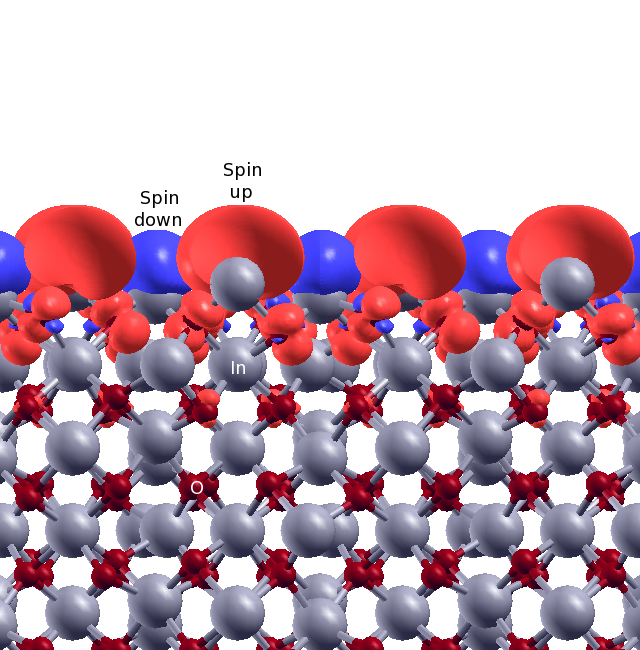 The spin density on the oxygen-depleted In2O3 (100) surface